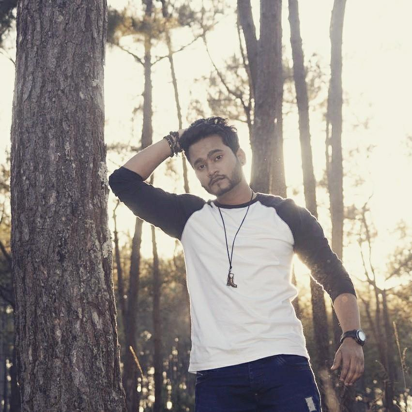 3 idiots fame